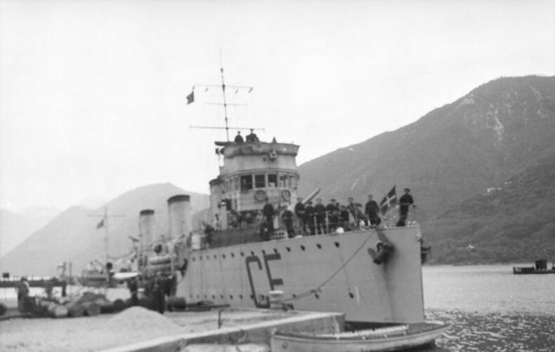 Old Italian torpedo boat (former destroyer) Generale Antonio Cantore